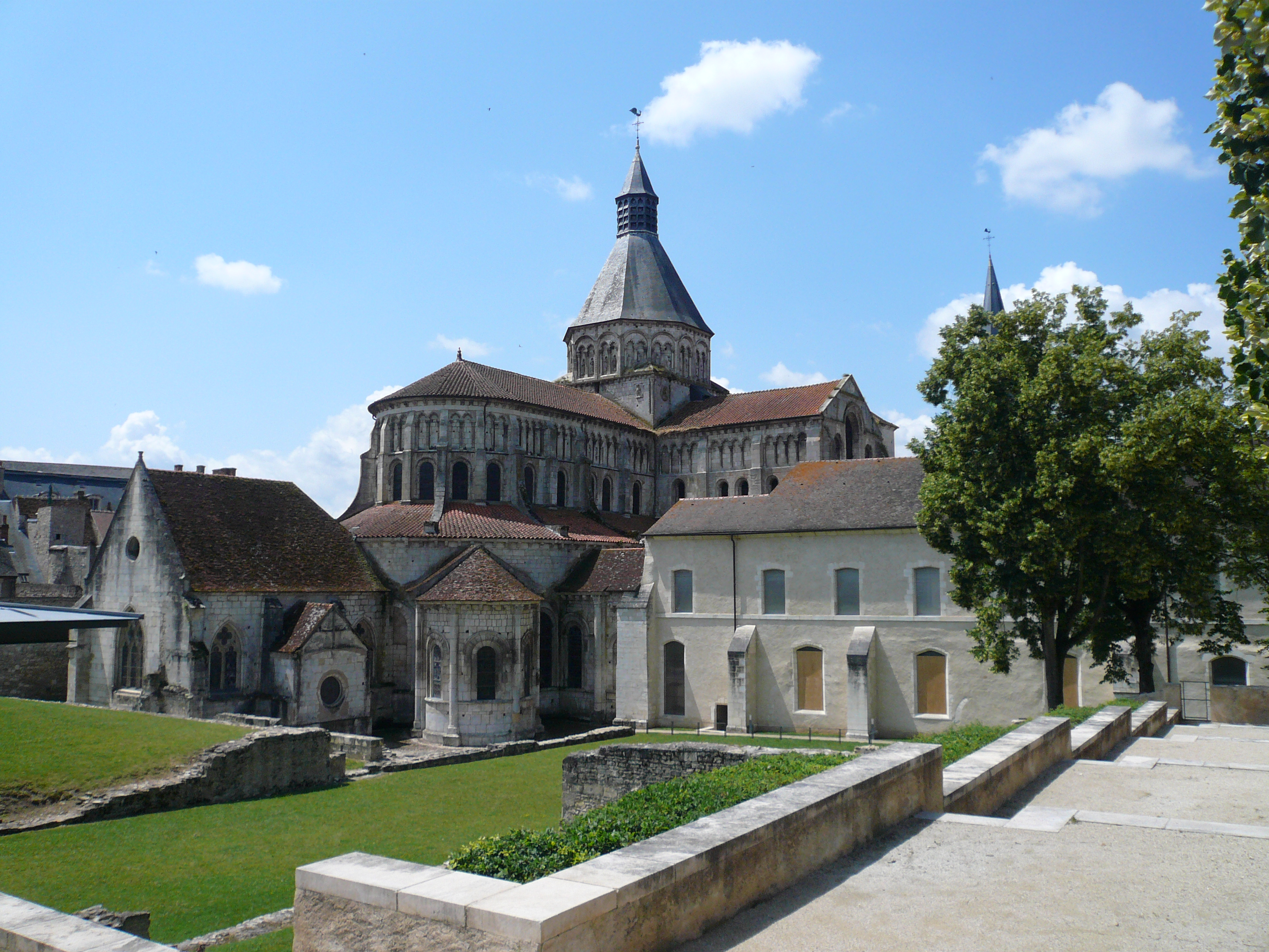 La Charité-sur-Loire, Nièvre, Burgundy, France